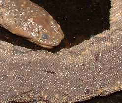 Preserved specimen of a wart snake